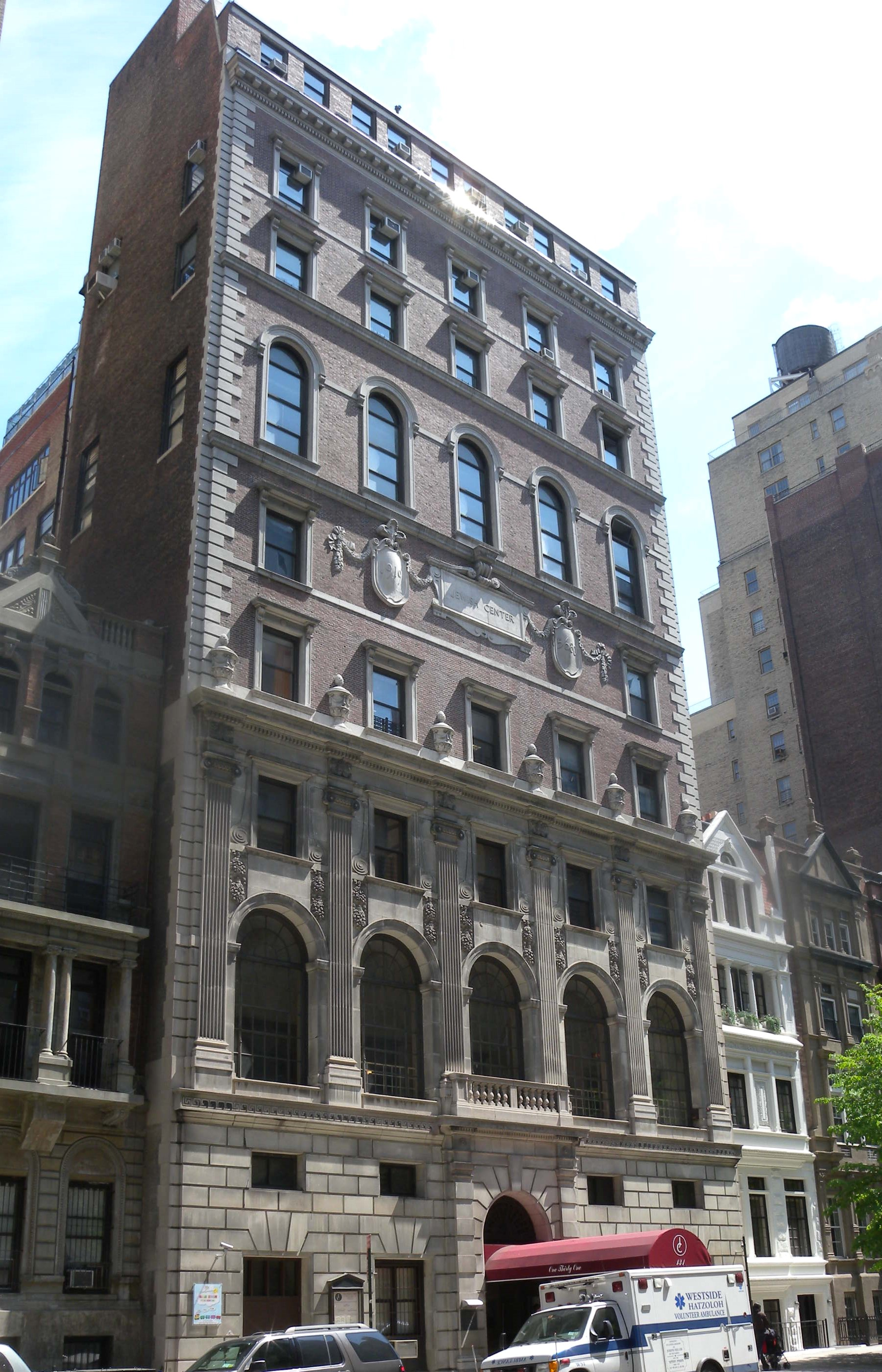 Looking northeast across 86th St at The Jewish Center on a mostly sunny midday.